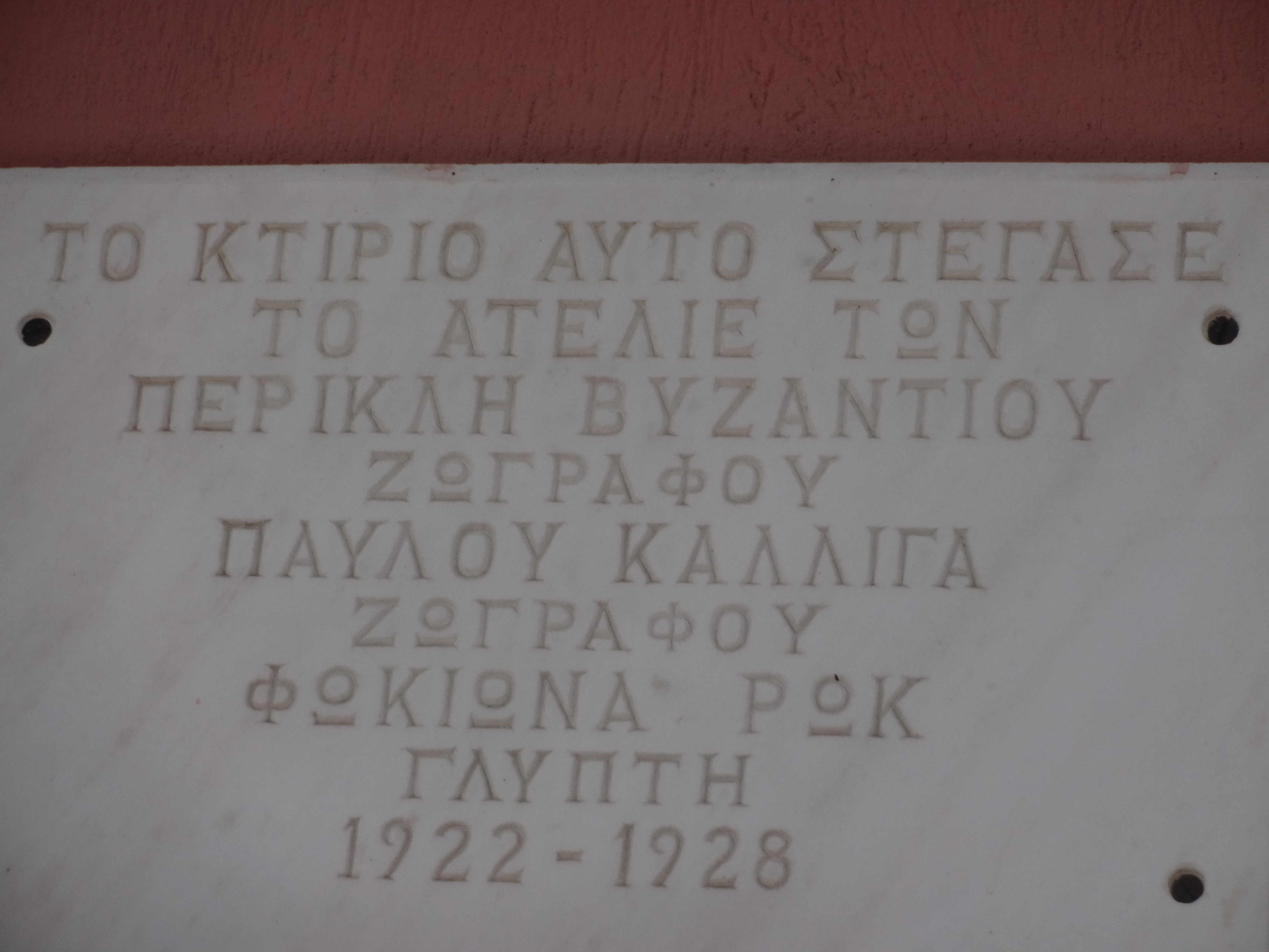 Memorial plate on ex Atelier